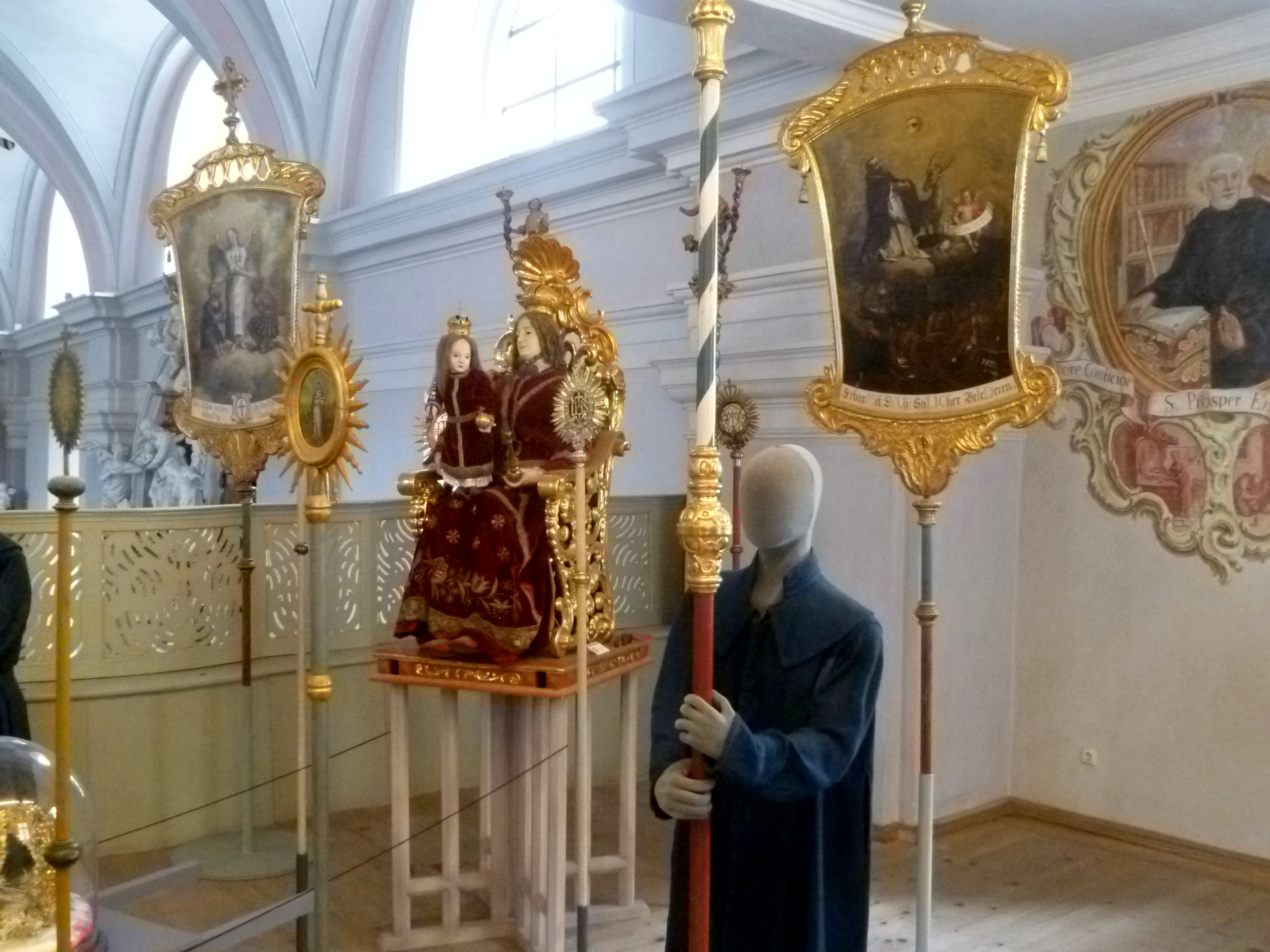 "Throning Madonna of the Rosary and Child", wooden lay figure and rocaille throne by Josef Martin Lengauer (1770); gilded crown and scepter (first half of 18th century); Augustiner museum, Rattenberg, Austria